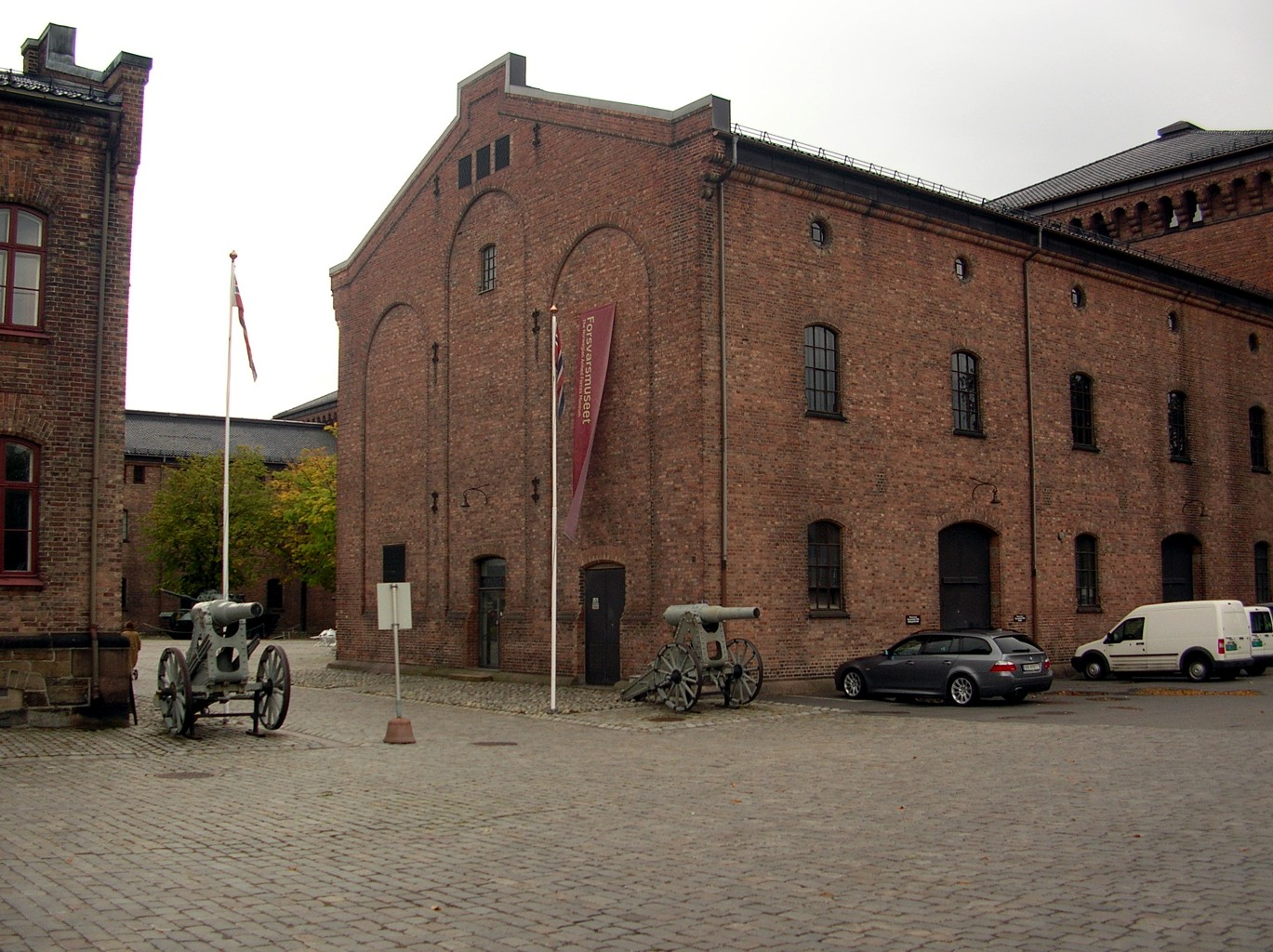 Forsvarsmuseet in Oslo (Norway)